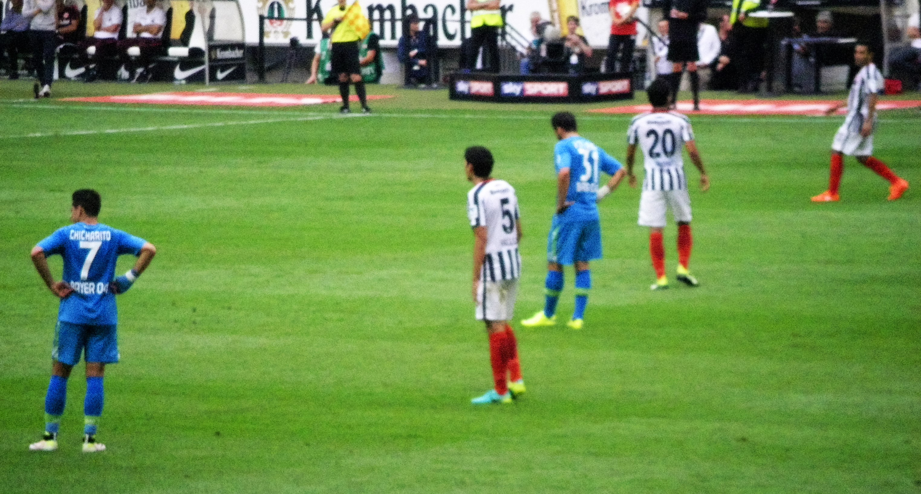 For the first time in the history of Bundesliga, two players from C.D. Guadalajara were playing against each other on September 17, 2016 and each of them has scored: Chicharito (leftmost in the picture) scored the equalizer (1-1) for Bayer Leverkusen and Marco Fabián (rightmost) scored the winning goal for Eintracht Frankfurt (2-1).